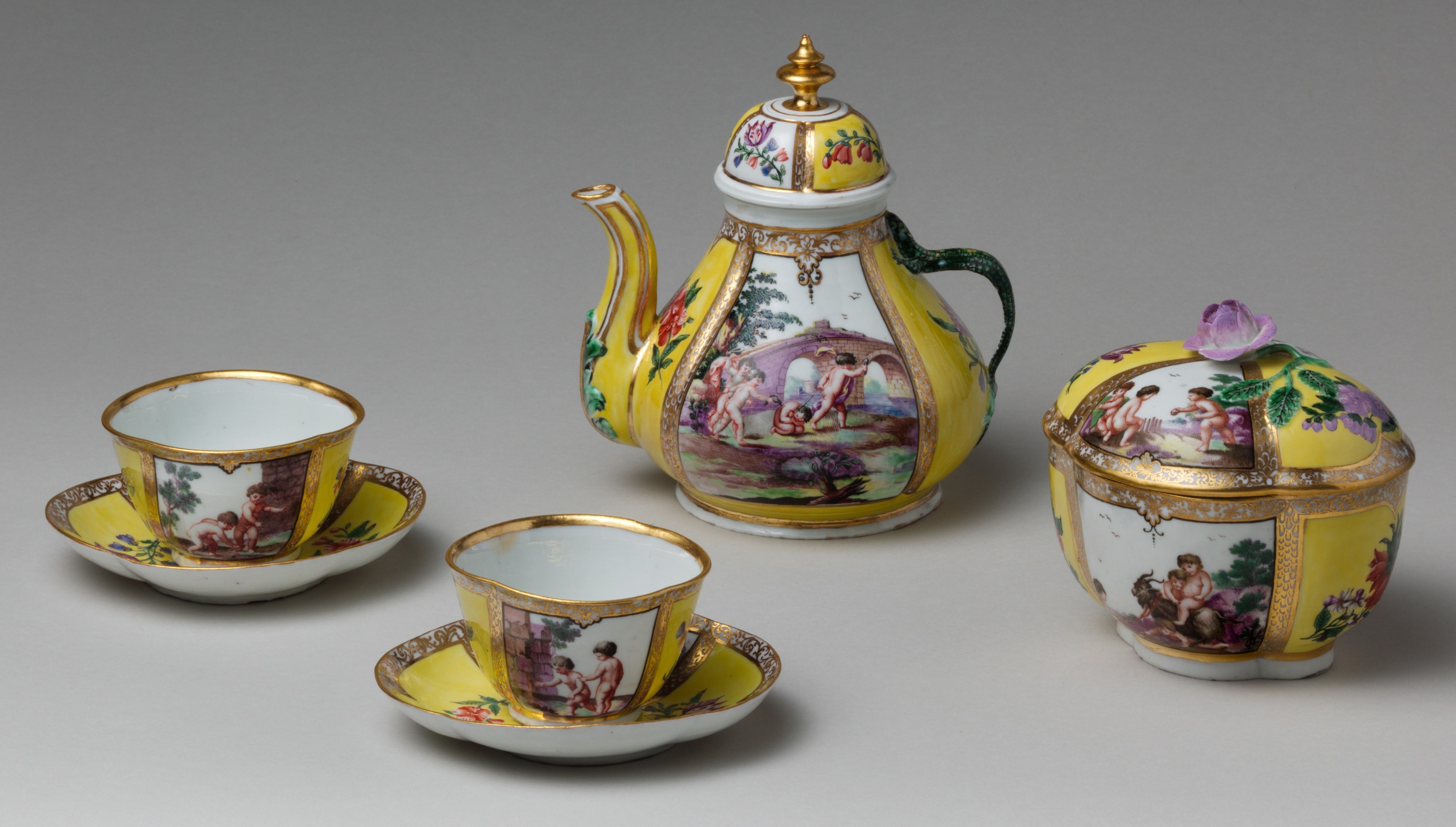 Italian, Florence; Teapot; Ceramics-Porcelain